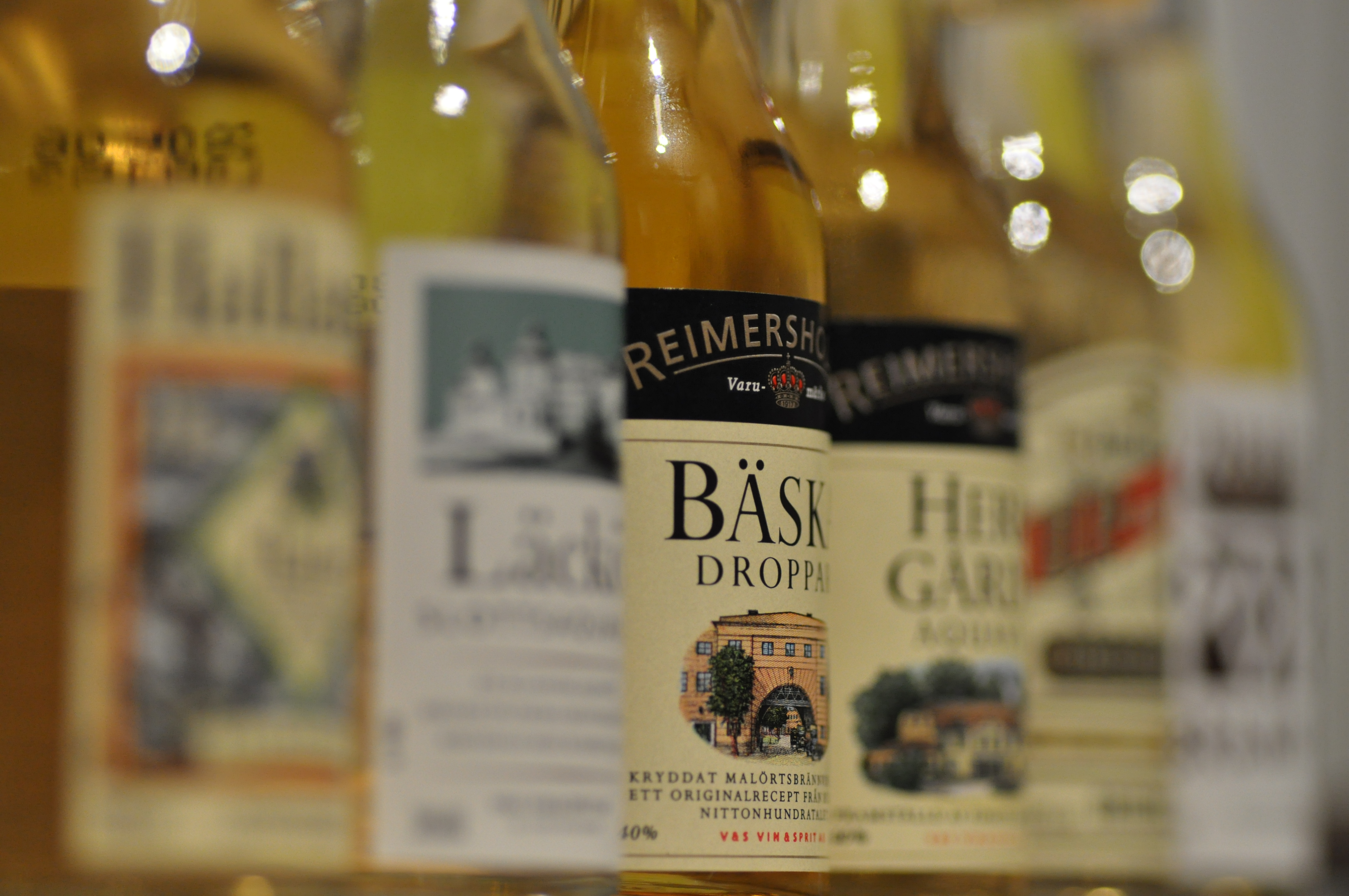 Bought some bottles of snaps for Christmas. Not to be confused with german Schnapps.